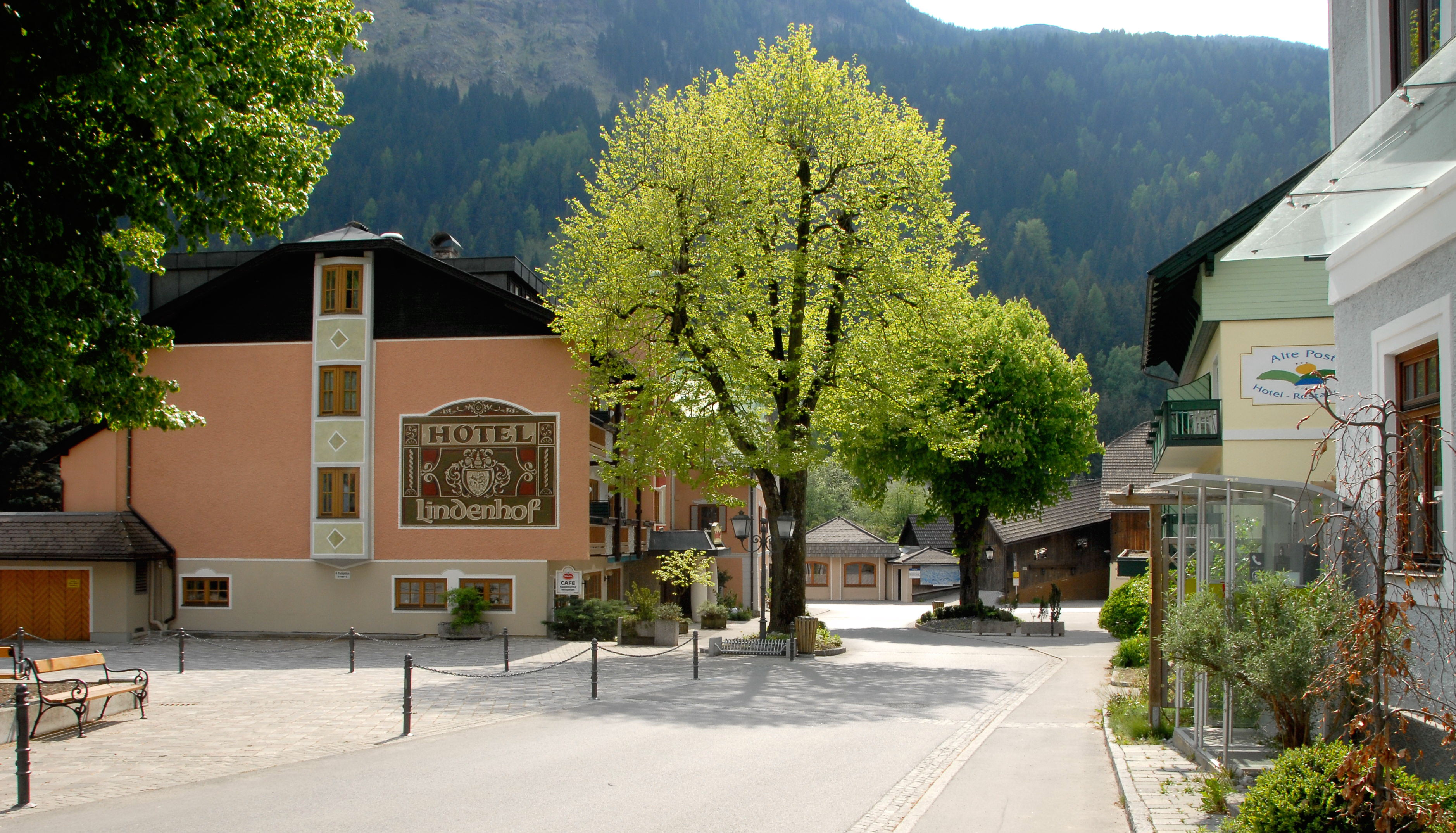 Center of the village Feld am See, district Villach-Land, Carinthia, Austria